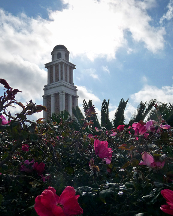 Edgewater Estates tower with flowers and other plants near the entrance to the subdivision